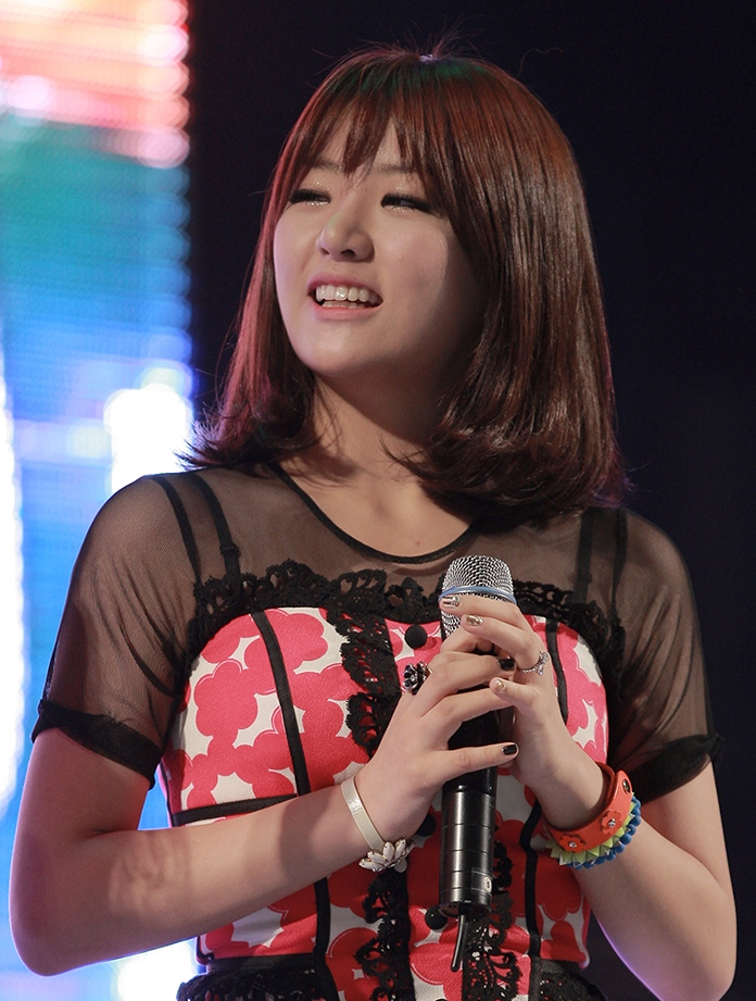 EunB at the Suwon Gymnasium on November 10, 2013.